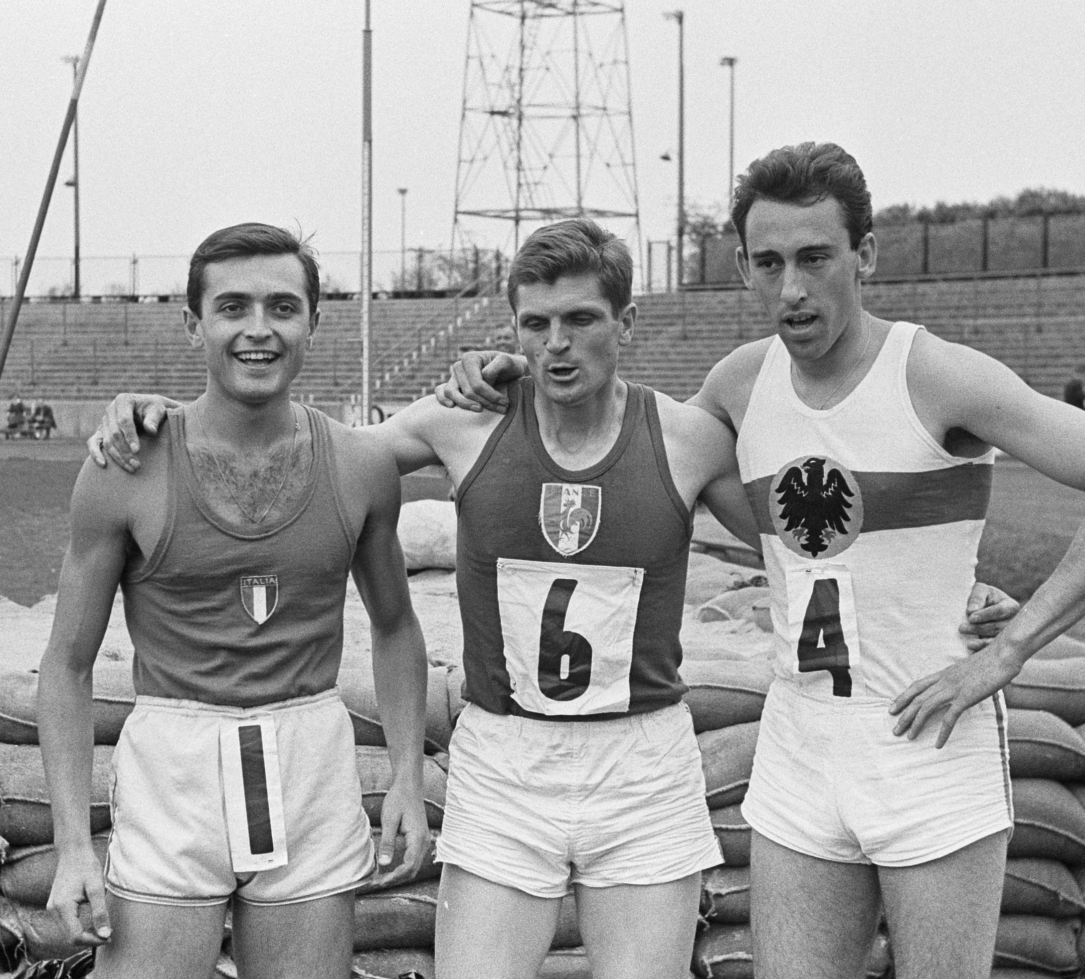 Zes Landen Atletiek (Six Countries Athletics) in Enschede. 100 meters: From left to right. Sergio Ottolina (Italy), Jocelyn Delecour (France) and Peter Gamper (Germany)